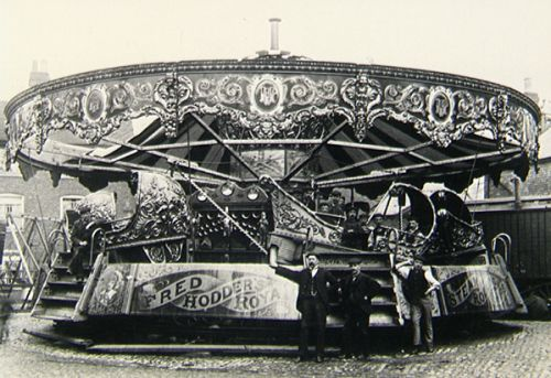 Picture of Sea-On-Land, a fairground amusement ride from the 1880s